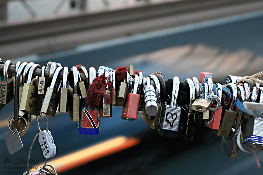 Brooklyn Bridge, Across the East River from Brooklyn to Manhattan New York